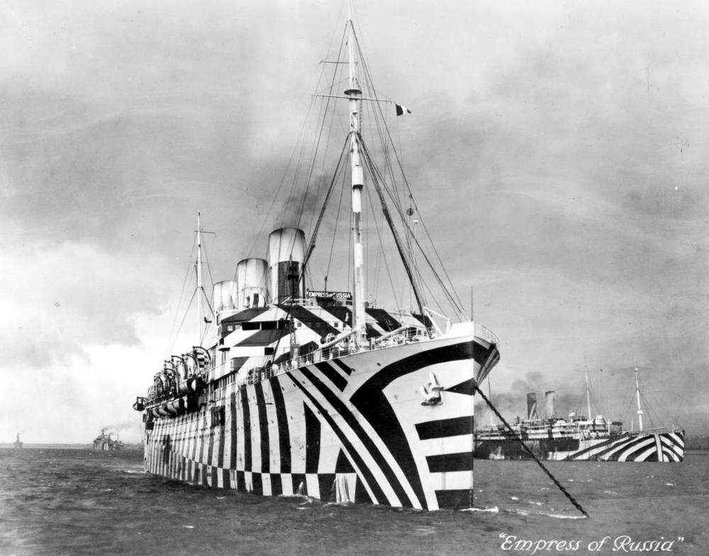 Detail of File:SS Empress of Russia 1918.jpg, First World War troop ship SS Empress of Russia, painted in "dazzle" camouflage markings